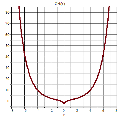 Chi(x) 2D plot